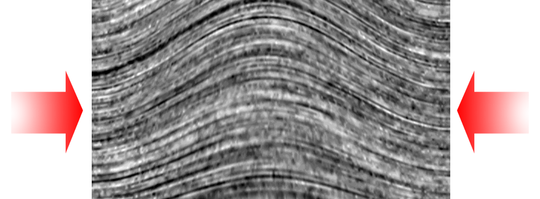 This PNG graphic was created with GIMP. Dynamic metamorphic rock - Information for this image can be found in the book: Jorden - Illustrerat uppslagsverk/sid:80 /Förlag: Globe förlaget,2005,/ ISBN 91-7166-020-8 /Orginal title: Earth (ISBN 1-4053-0018-3)(2003 Doring Kindersley)